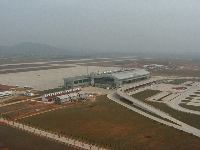 Photo of Changbei Airport in Nanchang as taken from the tower shortly after going into service. Construction was still in progress at the time.